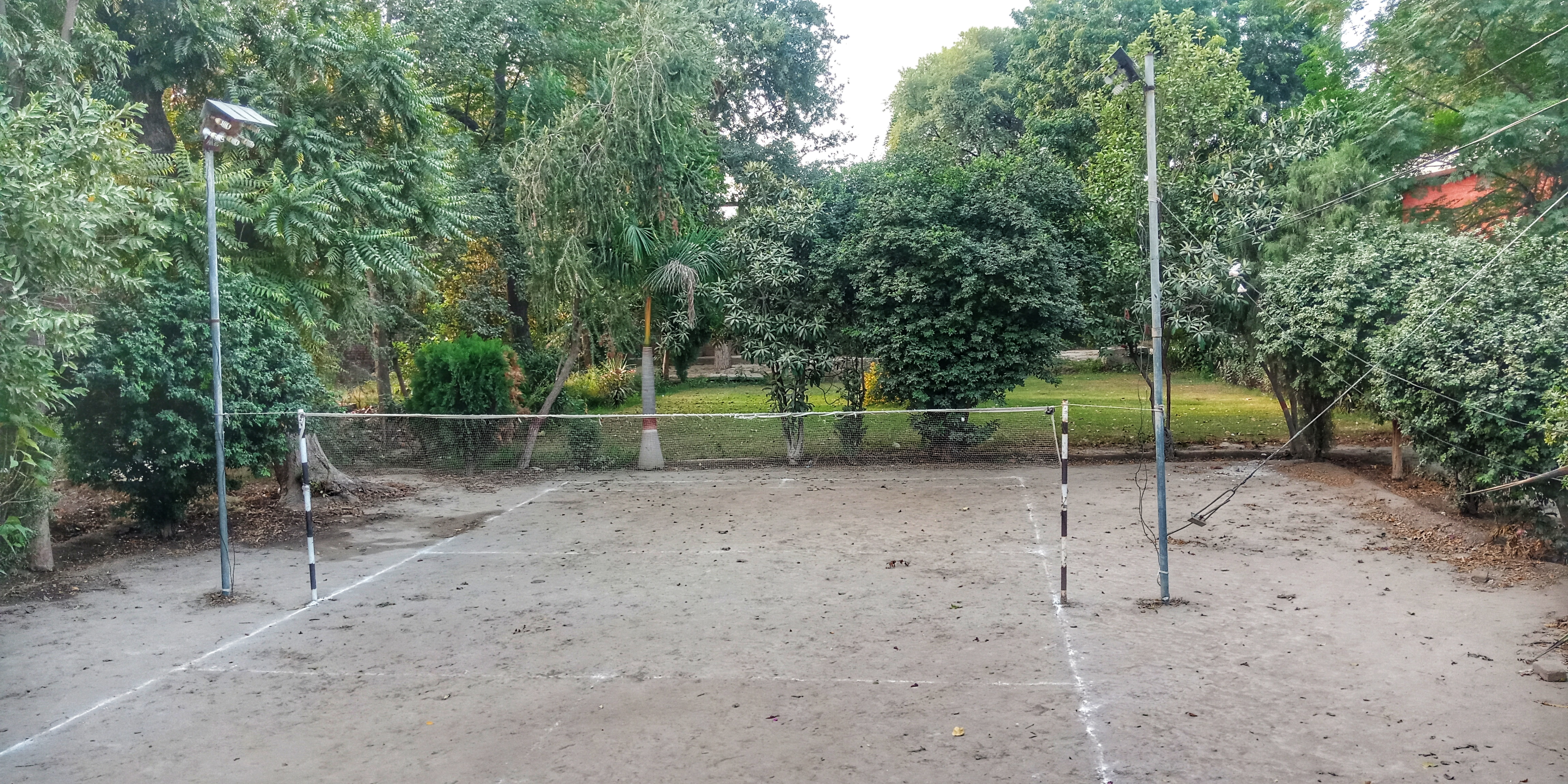 Al Mumtaz Badminton club Bunga Hayat, is a renowned sports club, existing from Early 1990's.